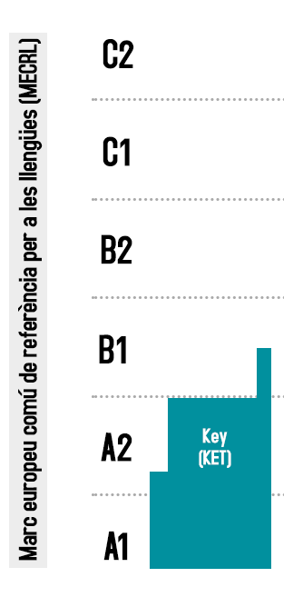 Comparison between the exam Cambridge